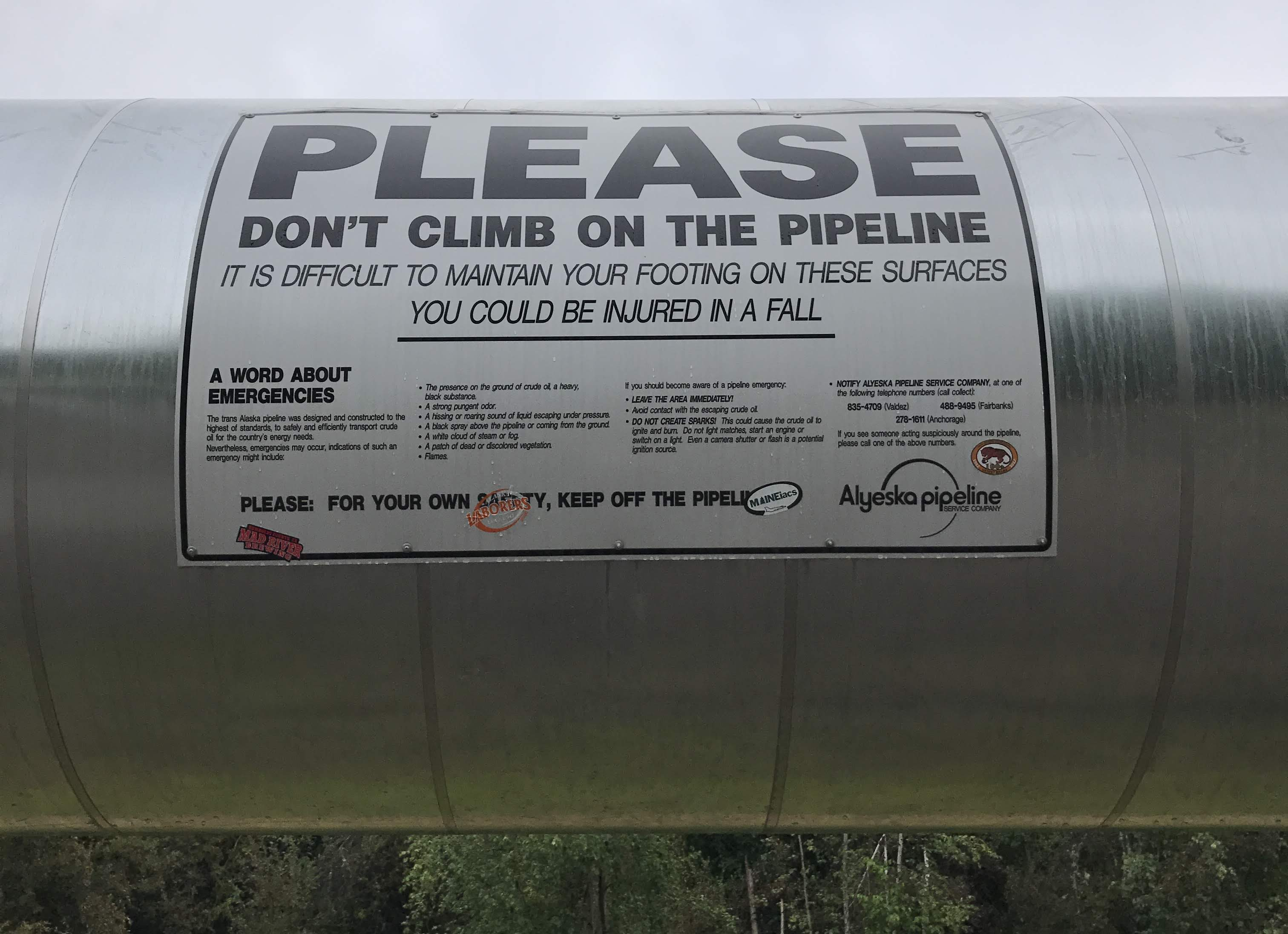 A no climbing sign on the Trans-Alaska Pipeline System